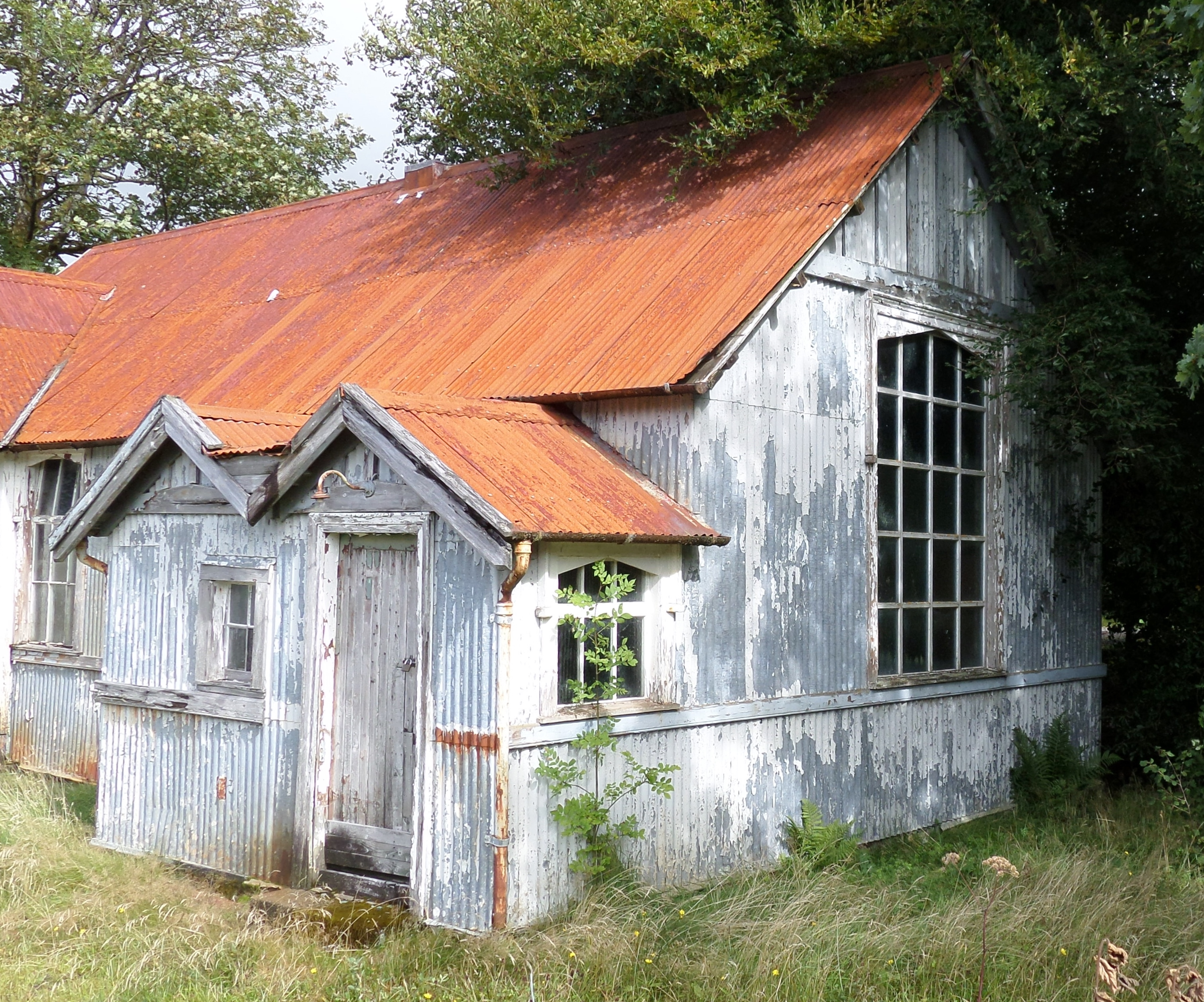 The Old Church Hall at Dalmally, Glenorchy, Scotland. A kit built corrugated iron building.